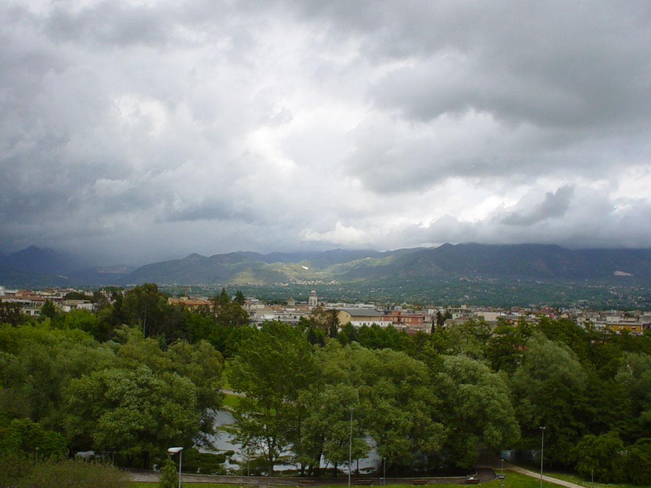 The town of Cassino from the upper part of the town.